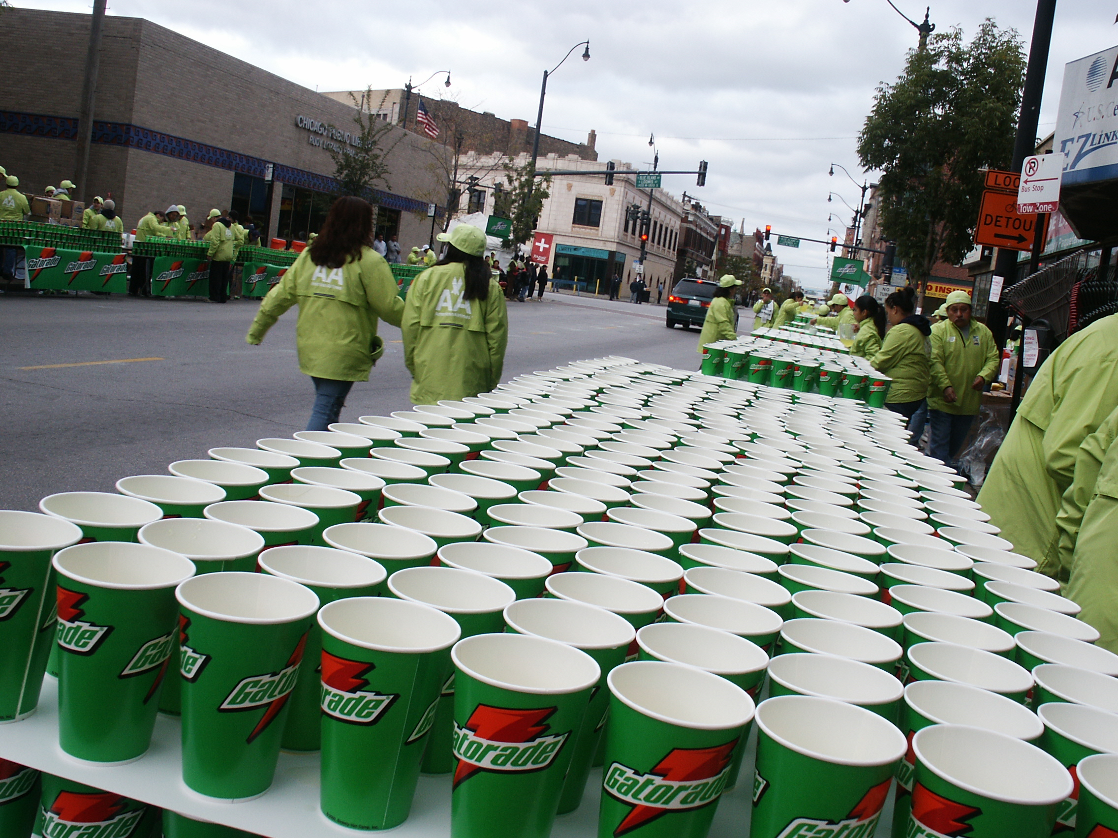 Gatorade cups on table at a marathon road race.